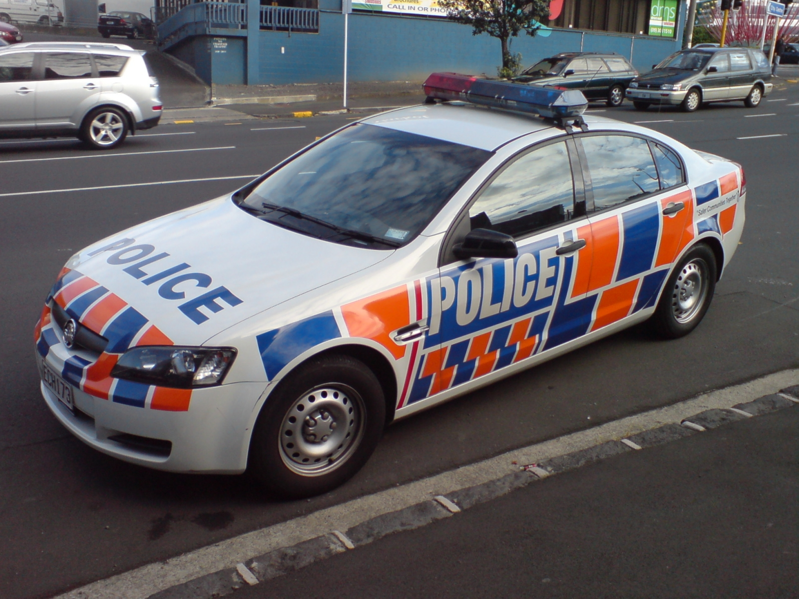 Community Patrol police car in Auckland City, New Zealand in highlight reflective orange and blue. Motorway Patrol are highlight yellow and blue livery, providing a clear distinction between the two.